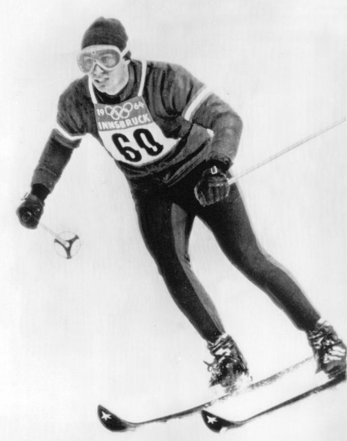 1964 Lizum Austria Olympics Giant Slalom Skier Prince Karim Aga Khan Press Phot0